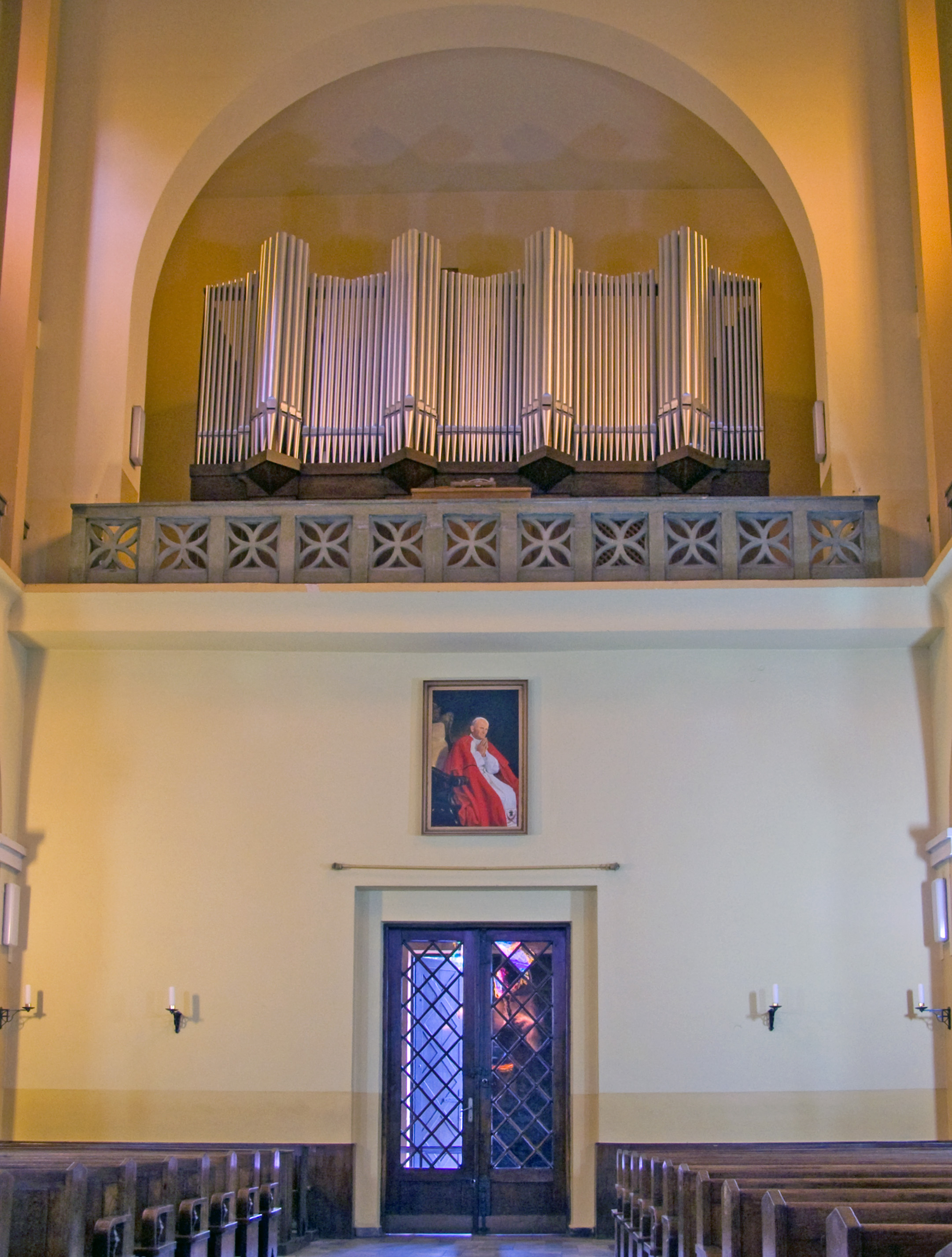 The front part of the nave and choir music bodies, the interior of the church of St. Michael the Archangel at Bronowice in Lublin.